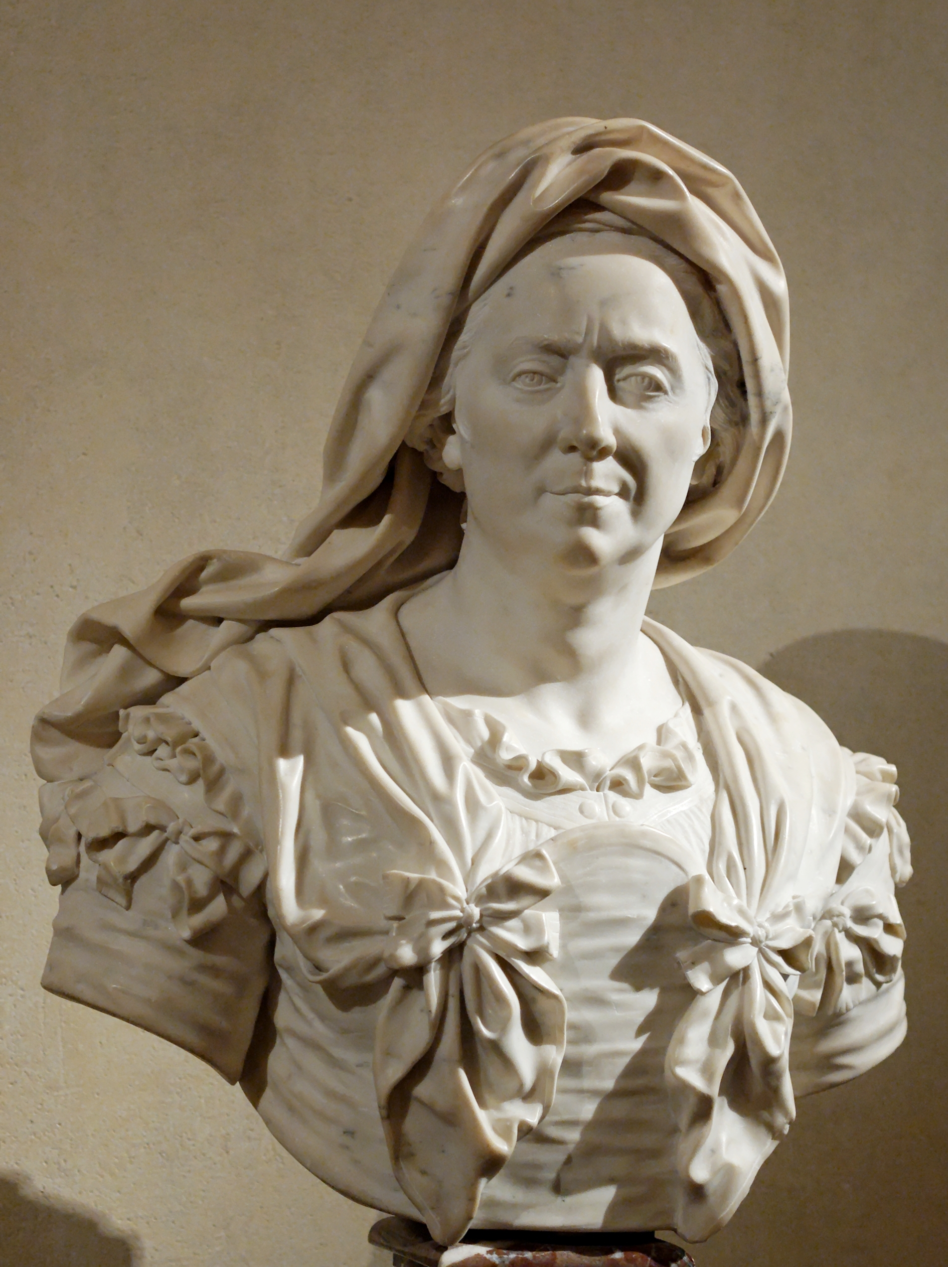 Portrait of Marie Serre, mother of Hyacinthe Rigaud. Sculpted after a painting by the latter.